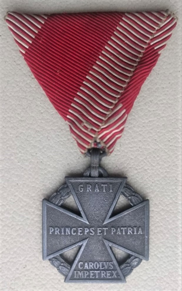 Austria-Hungaryː First World War decorationː Charles Troop Cross 1916-18, reverse side